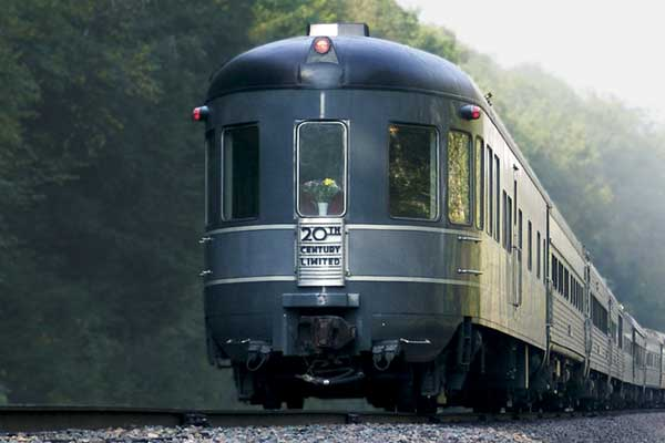 The "Hickory Creek" is a sleeper-buffet-observation car. It was built by Pullman-Standard in 1948 for the 20th Century Limited and is now privately owned. As built it had five double bedrooms.